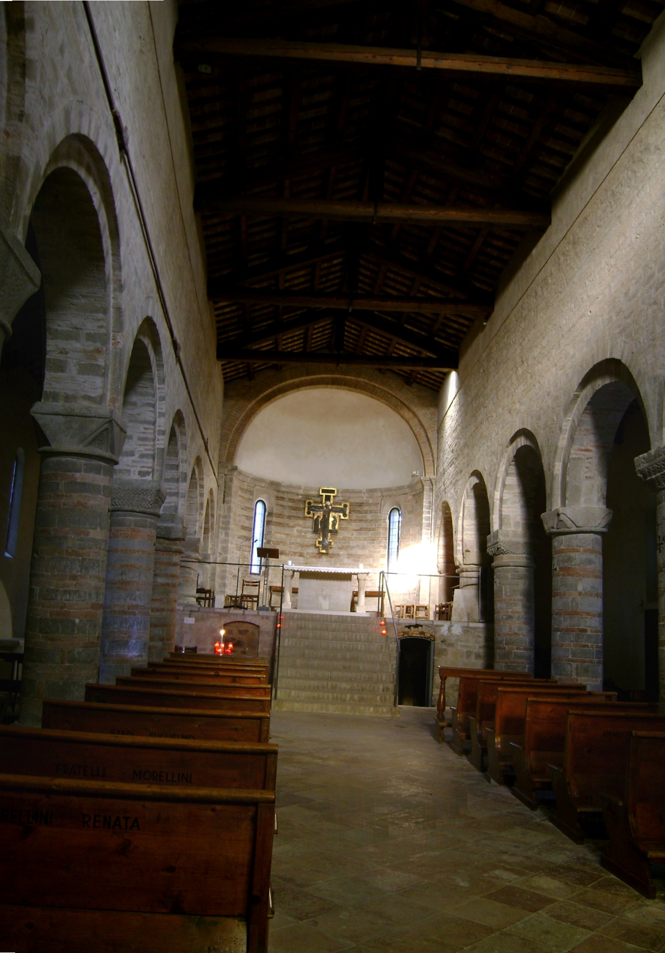 The interior of the church of San Donato in Polenta, Bertinoro, province of Forlì-Cesena, Emilia-Romagna